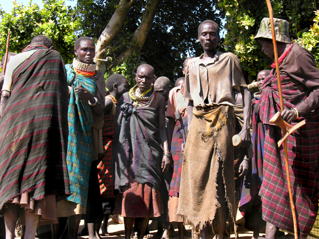 Ik villagers in northern Uganda, 2005